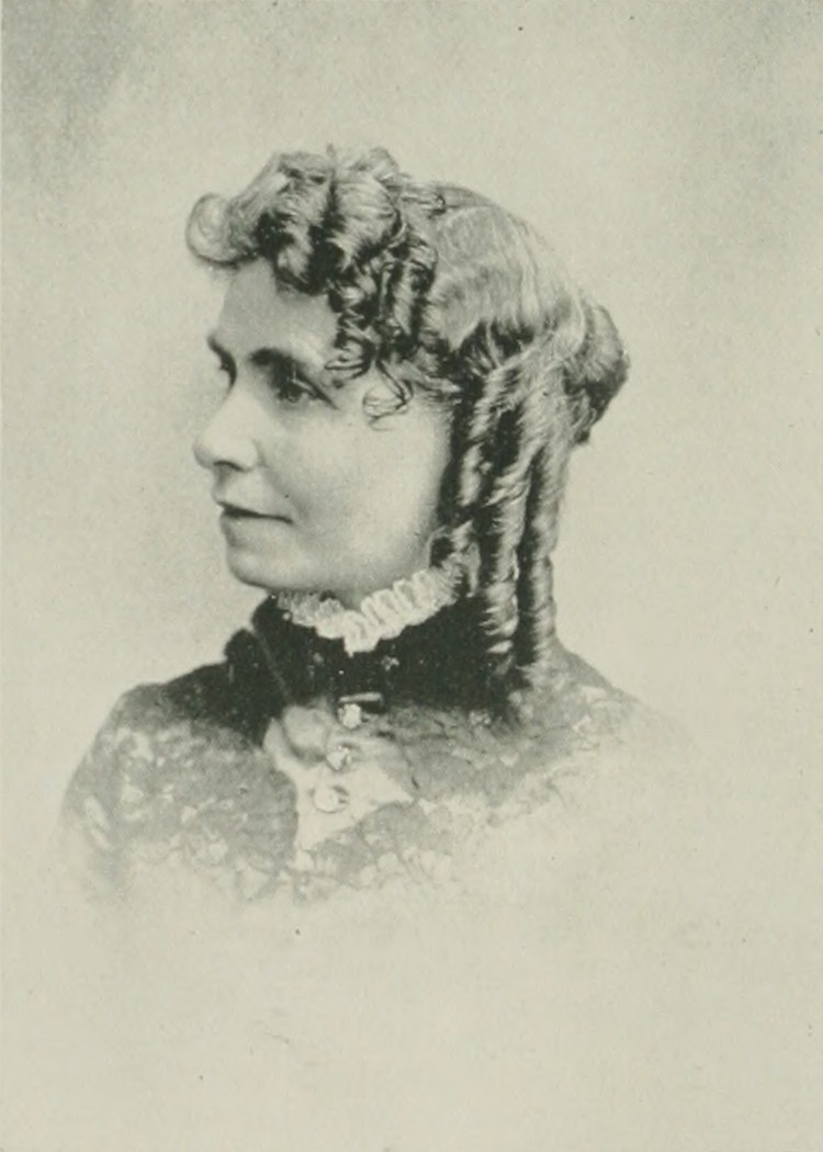 Page:A woman of the century.djvu/